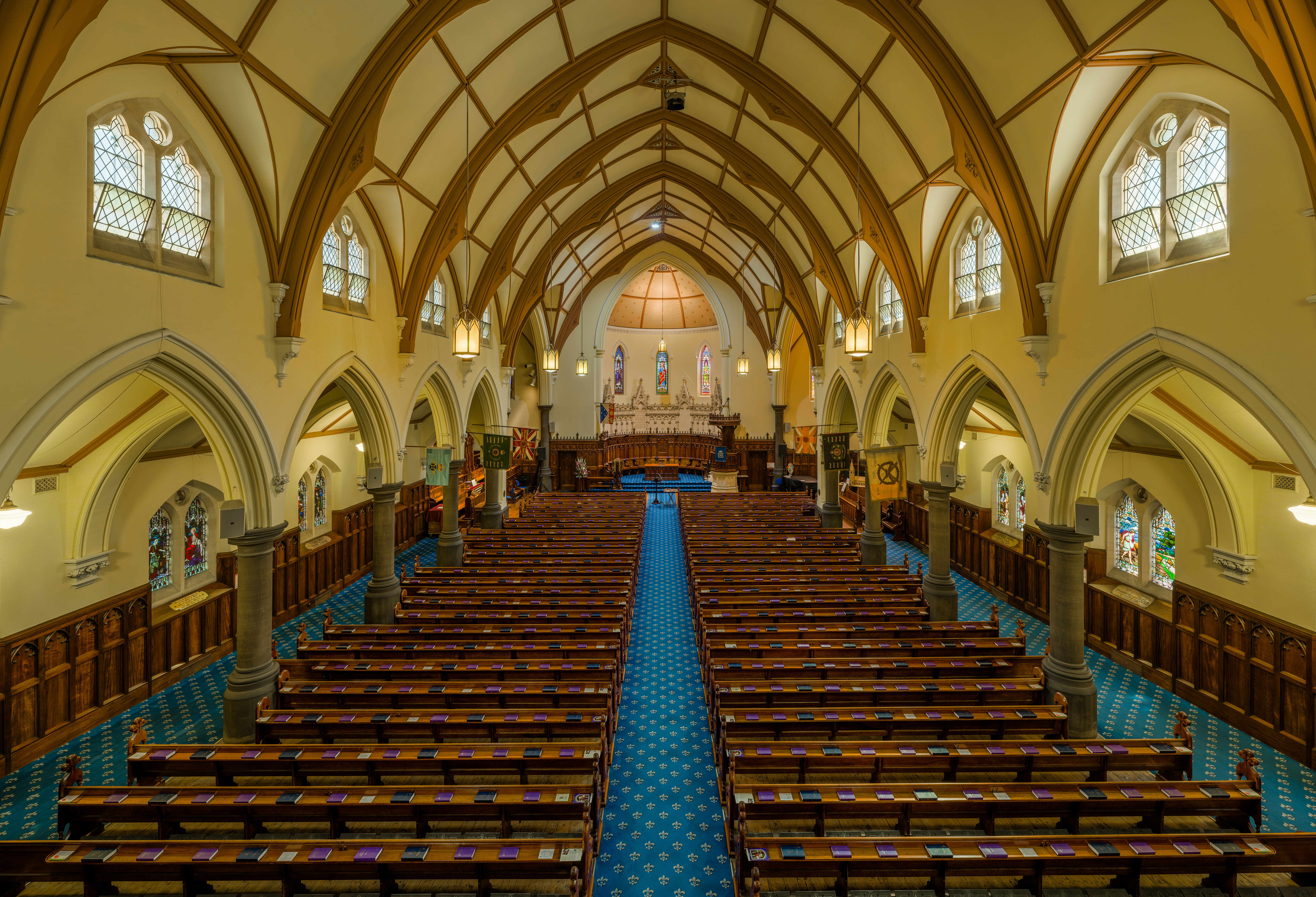 The interior of Scots' Church, Melbourne, Australia, as viewed from the rear balcony of the church looking toward the altar.